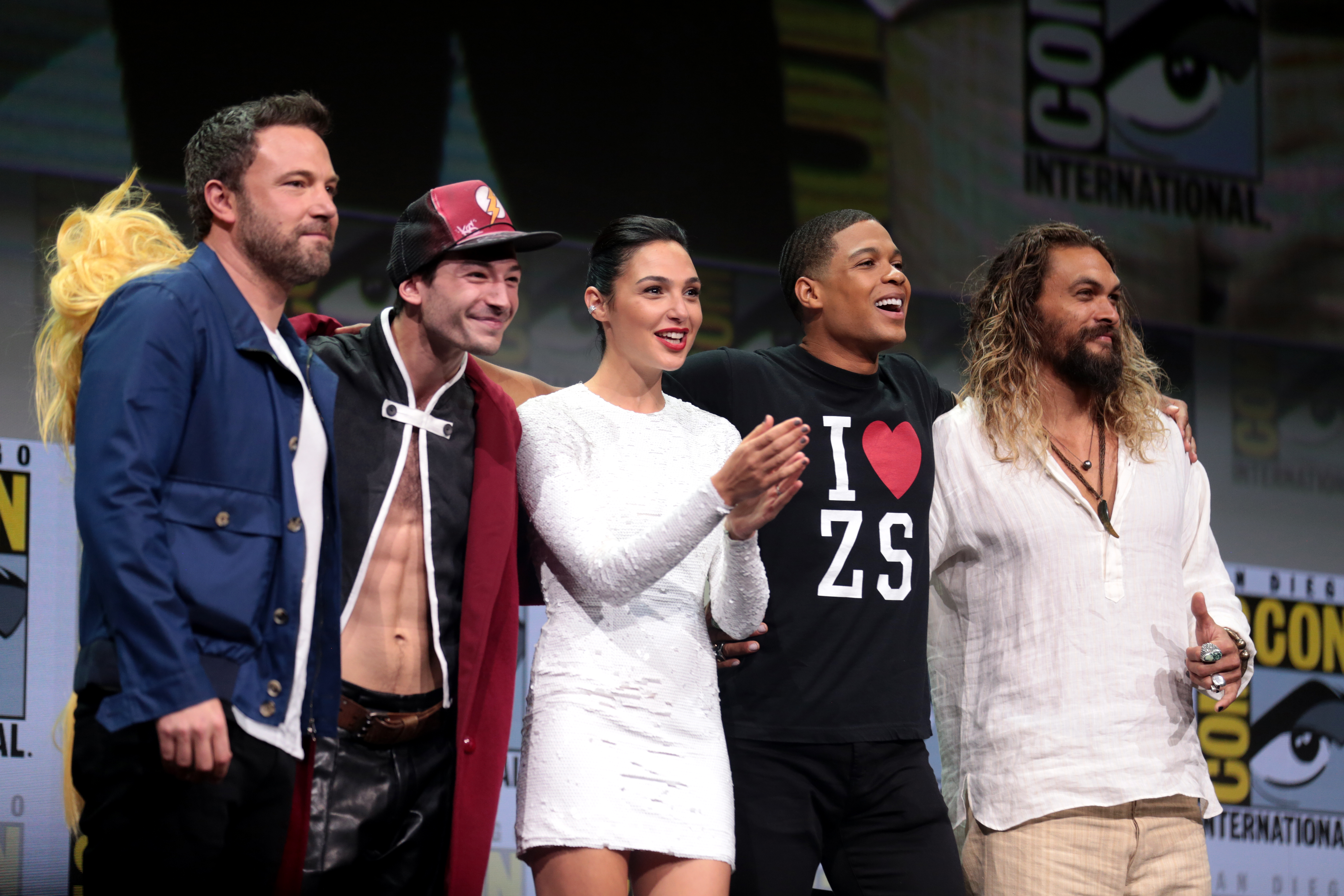 Ben Affleck, Ezra Miller, Gal Gadot, Ray Fisher and Jason Momoa speaking at the 2017 San Diego Comic Con International, for "Justice League", at the San Diego Convention Center in San Diego, California.